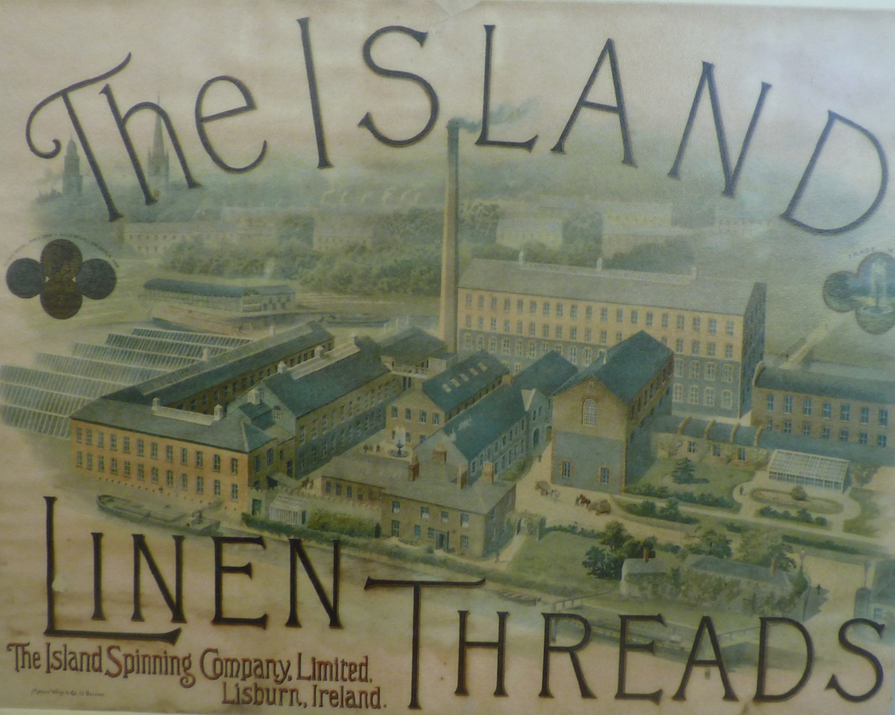 Lisburn, Co. Antrim, Ireland Island Spinning Company